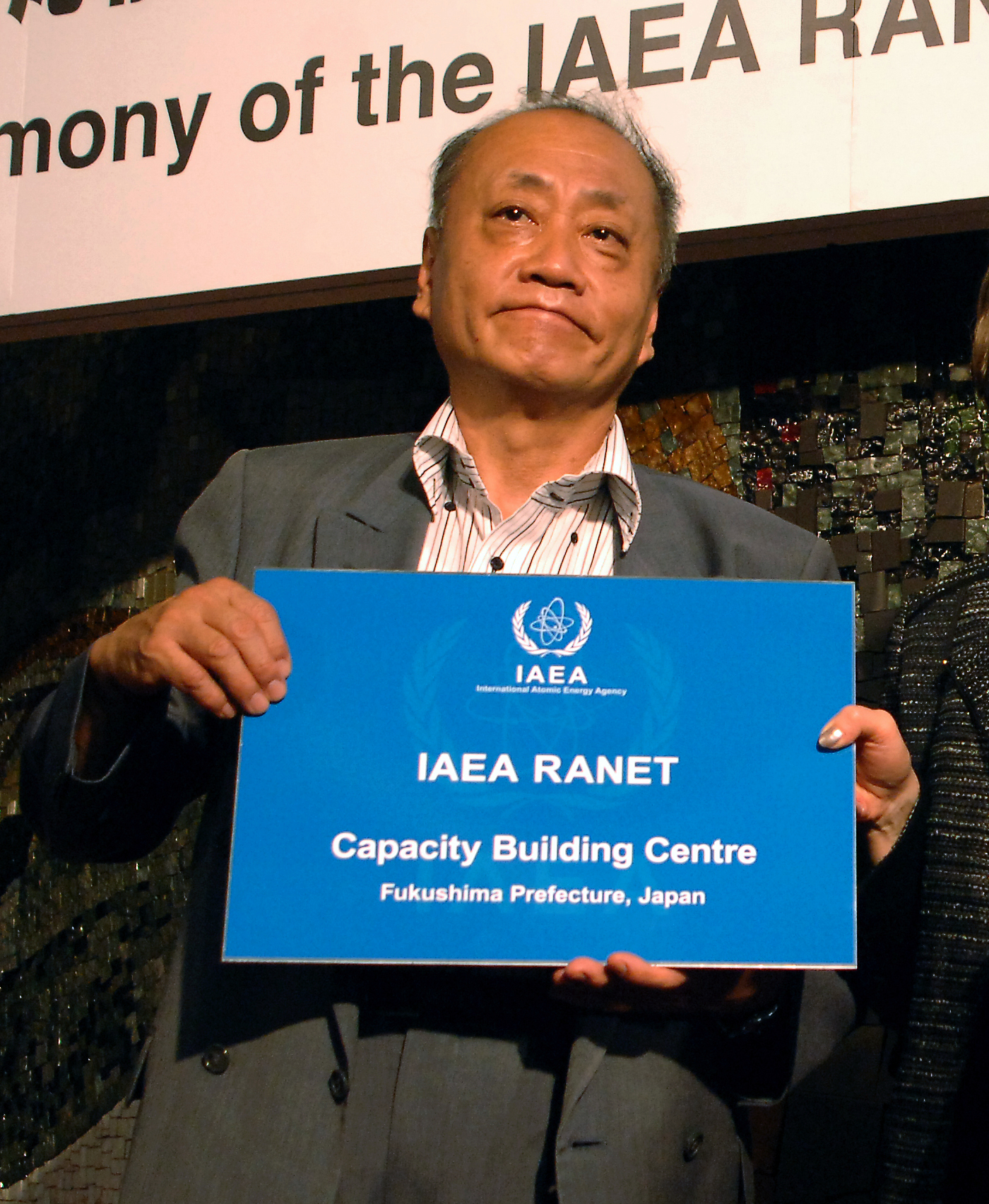 Elena Buglova, Head of the Incident and Emergency Centre, International Atomic Energy Agency, Shin Maruo, Ambassador for Science and Technology Cooperation, and Masao Uchibori, Deputy Governor of Fukushima Prefecture, held up signs of the IAEA RANET Capacity Building Centre in Fukushima City, Fukushima Prefecture on May 27, 2013.